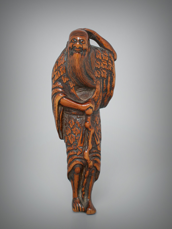 Jobun